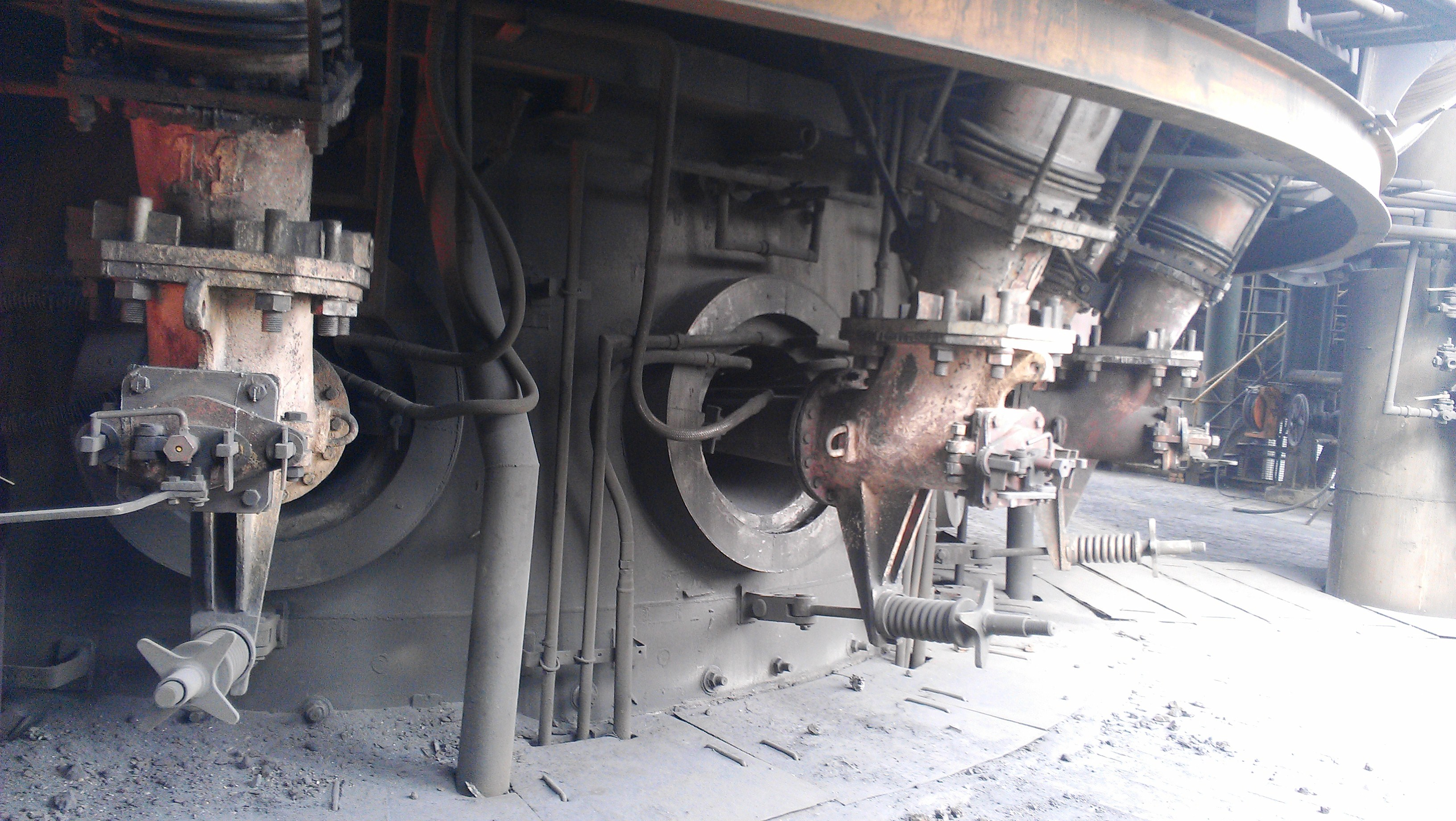 Tuyeres connected to the Blast Furnace at GErdau Steel India Limited